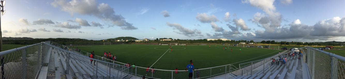 The Antigua and Barbuda Football Association Technical Centre located in Paynters, Saint George's, Antigua and Barbuda.